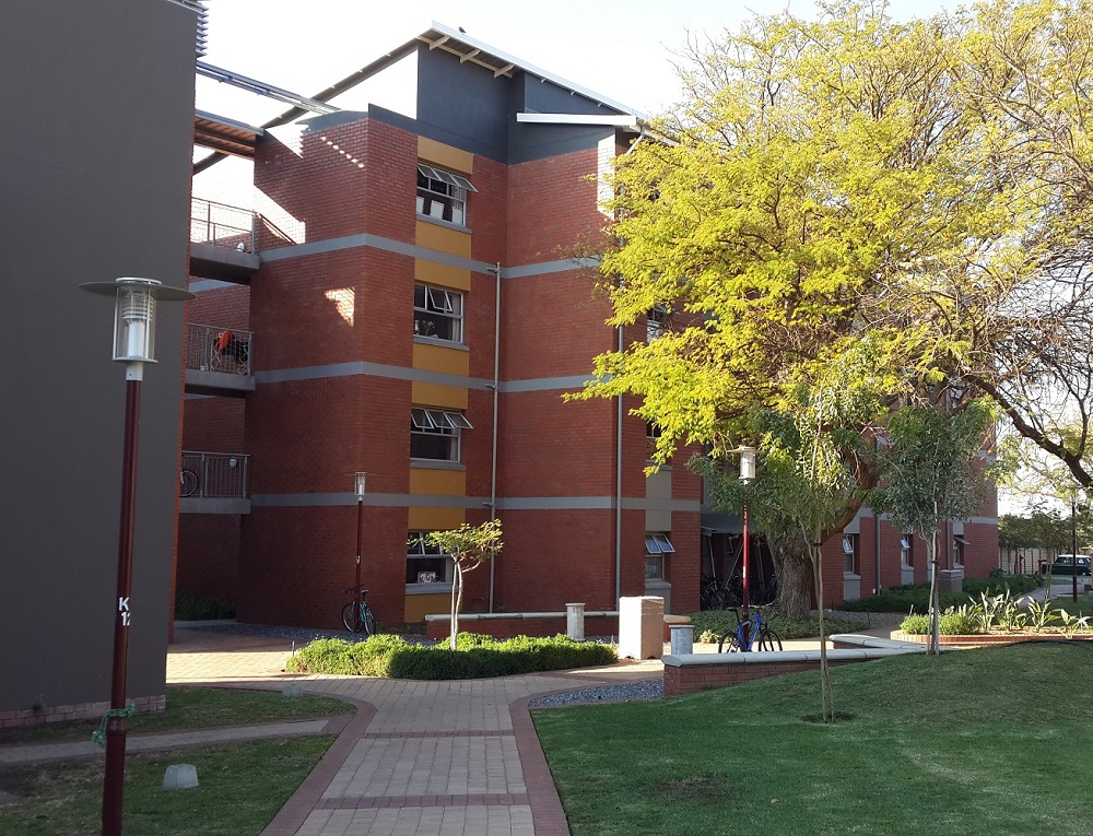 Photo of the new residence building on Onderstepoort campus